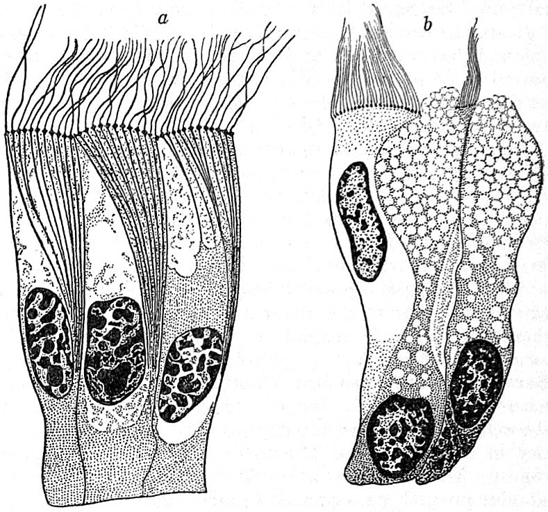 Types of Cells. a, Ciliated epithelial cells. (After Heidenhain.) b, Mucus-secreting “goblet”-cells. (After Gurwitsch.)